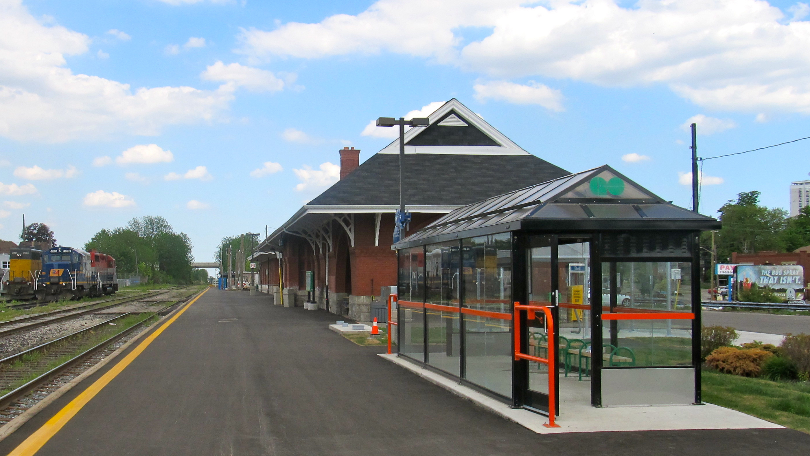 Railway station in Kitchener, Ontario